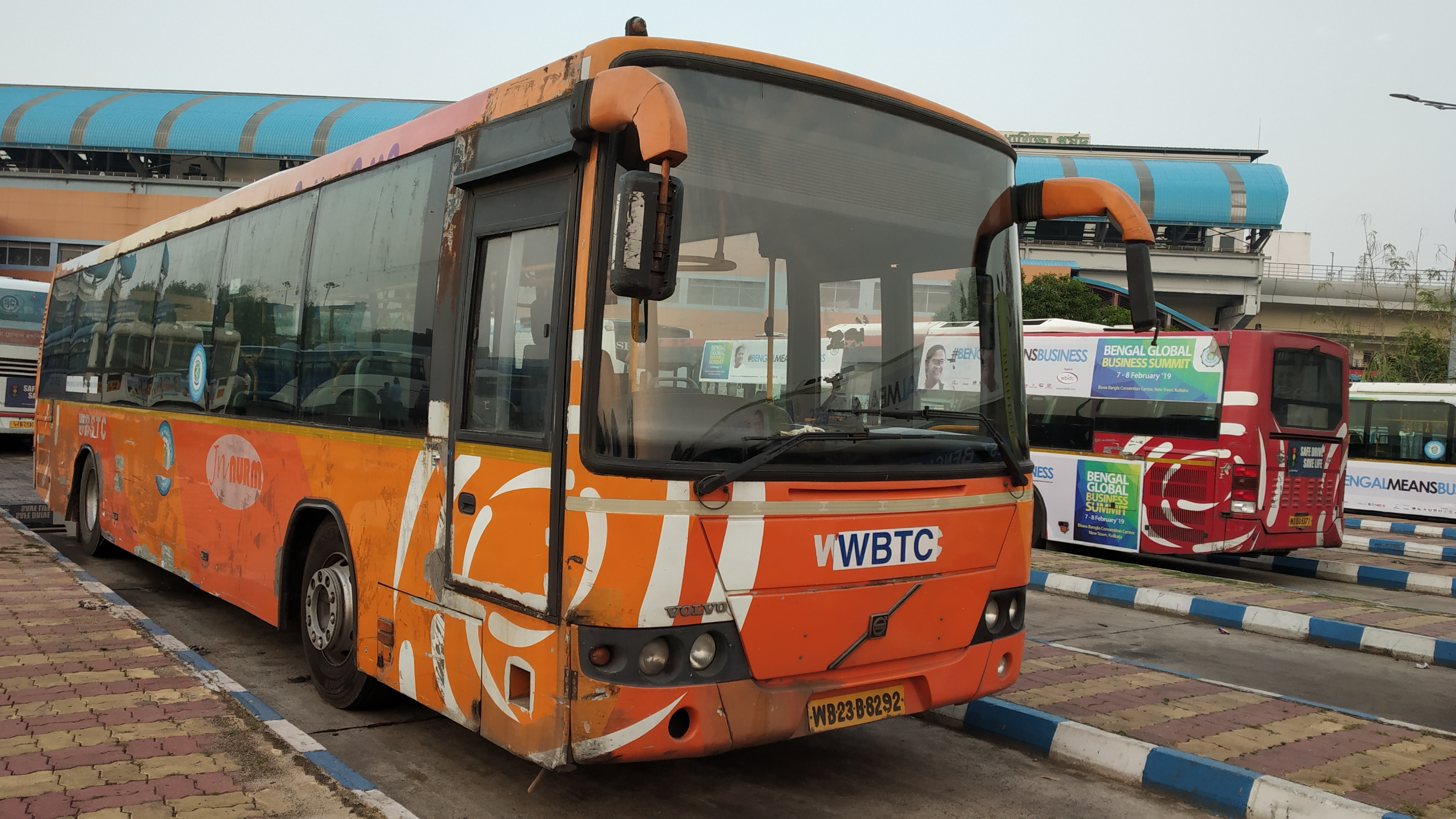 Volvo 8400 B7RLE